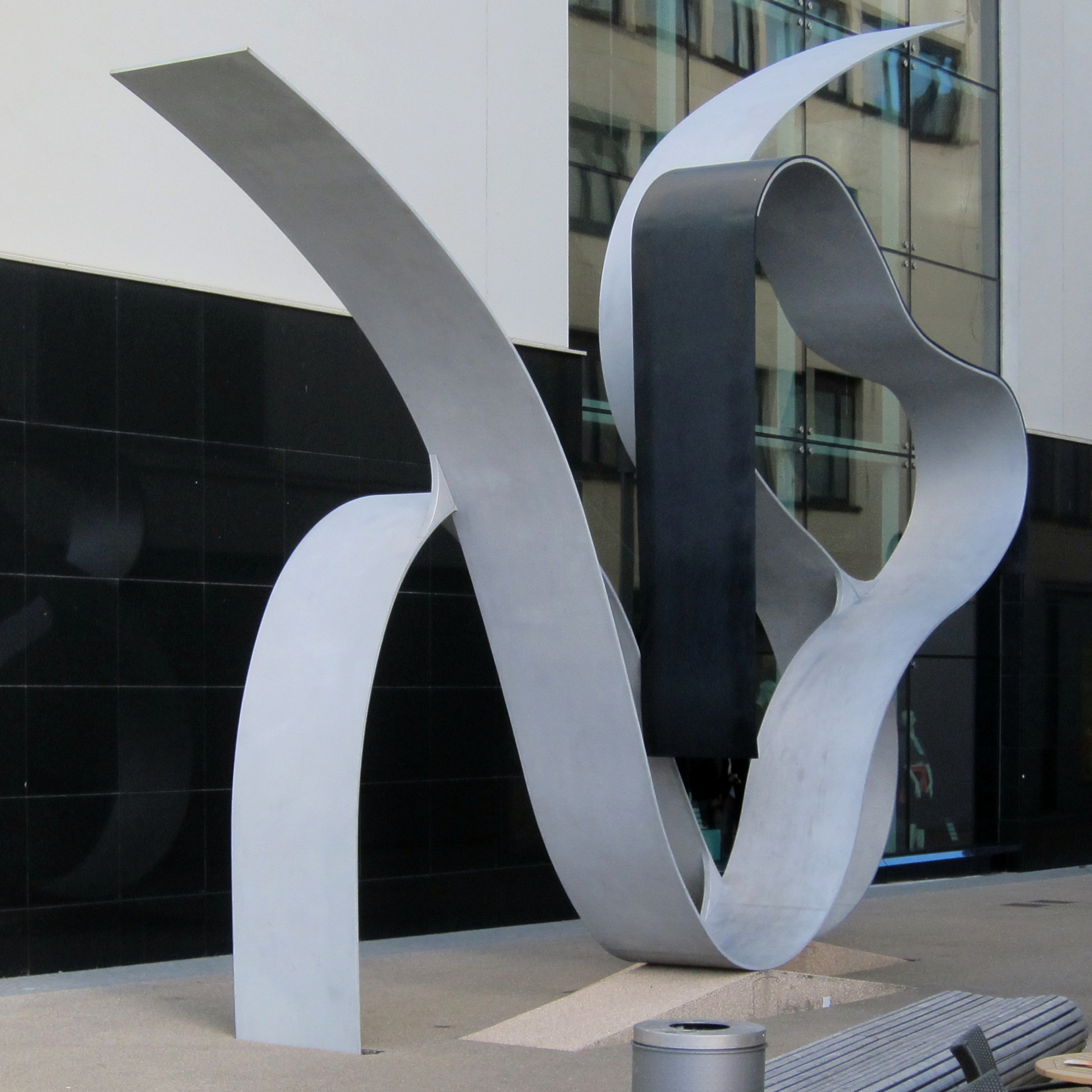 Sculpture of the islandic artist Sigrún Ólafsdóttir at Saarbrücken's Schifferstraße